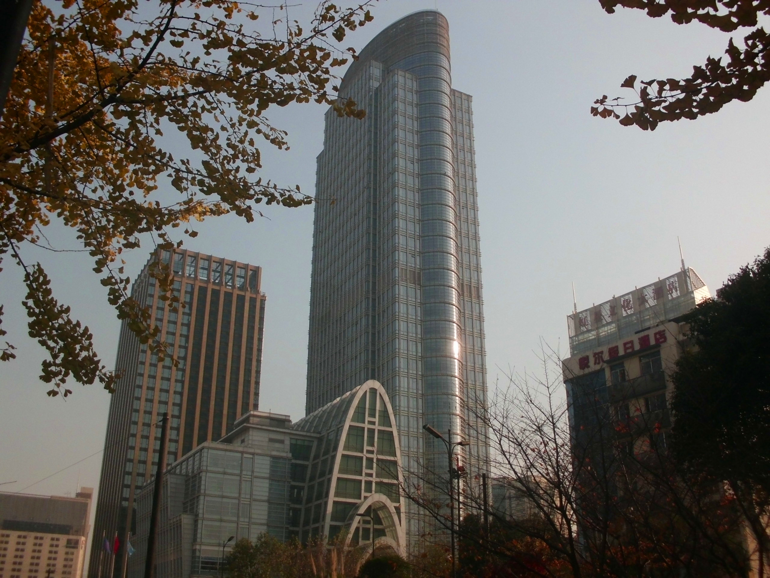 Hangzhou Goethe Hotel